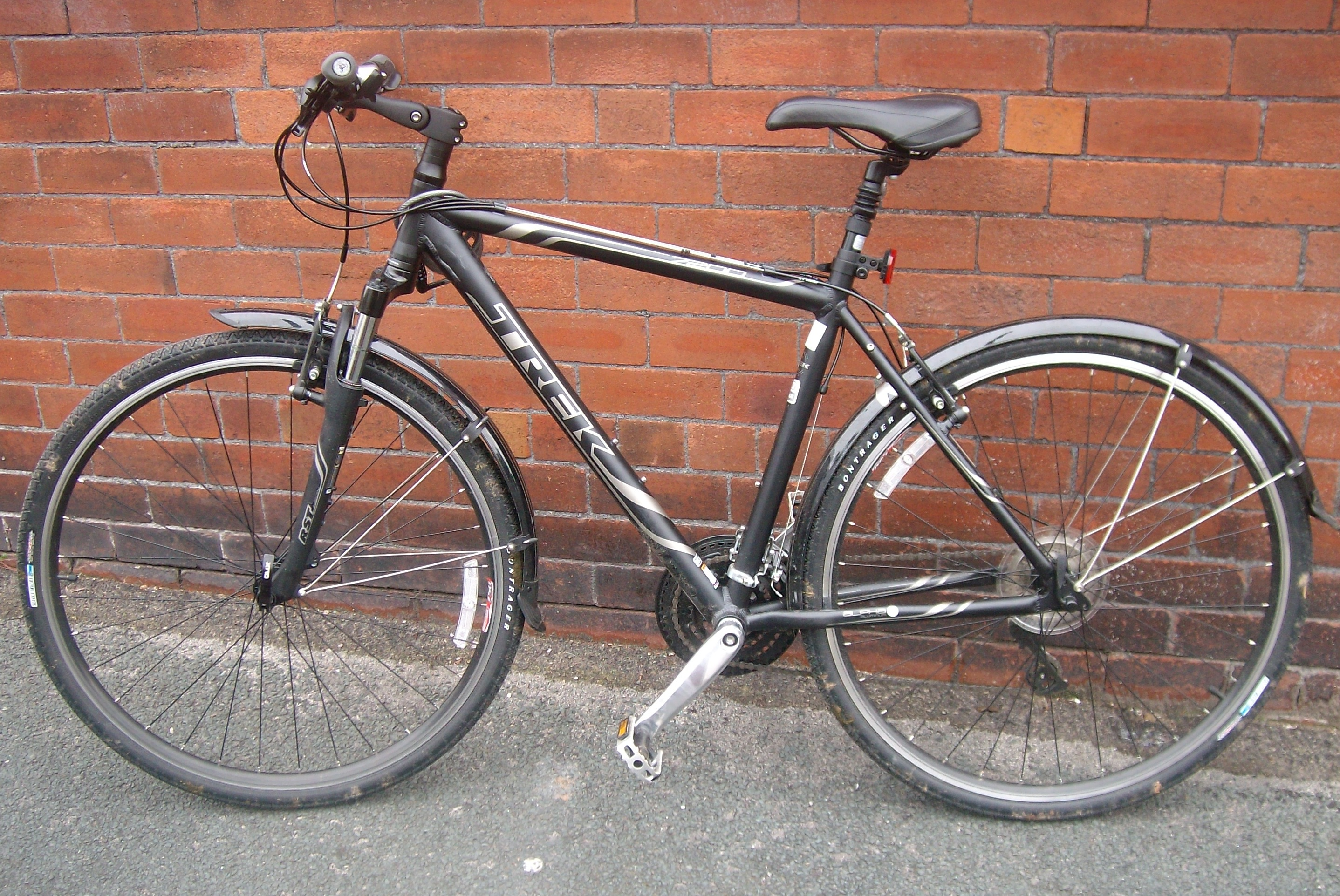 A Trek 7200, a hybrid bike made by Trek Bicycle Corporation.